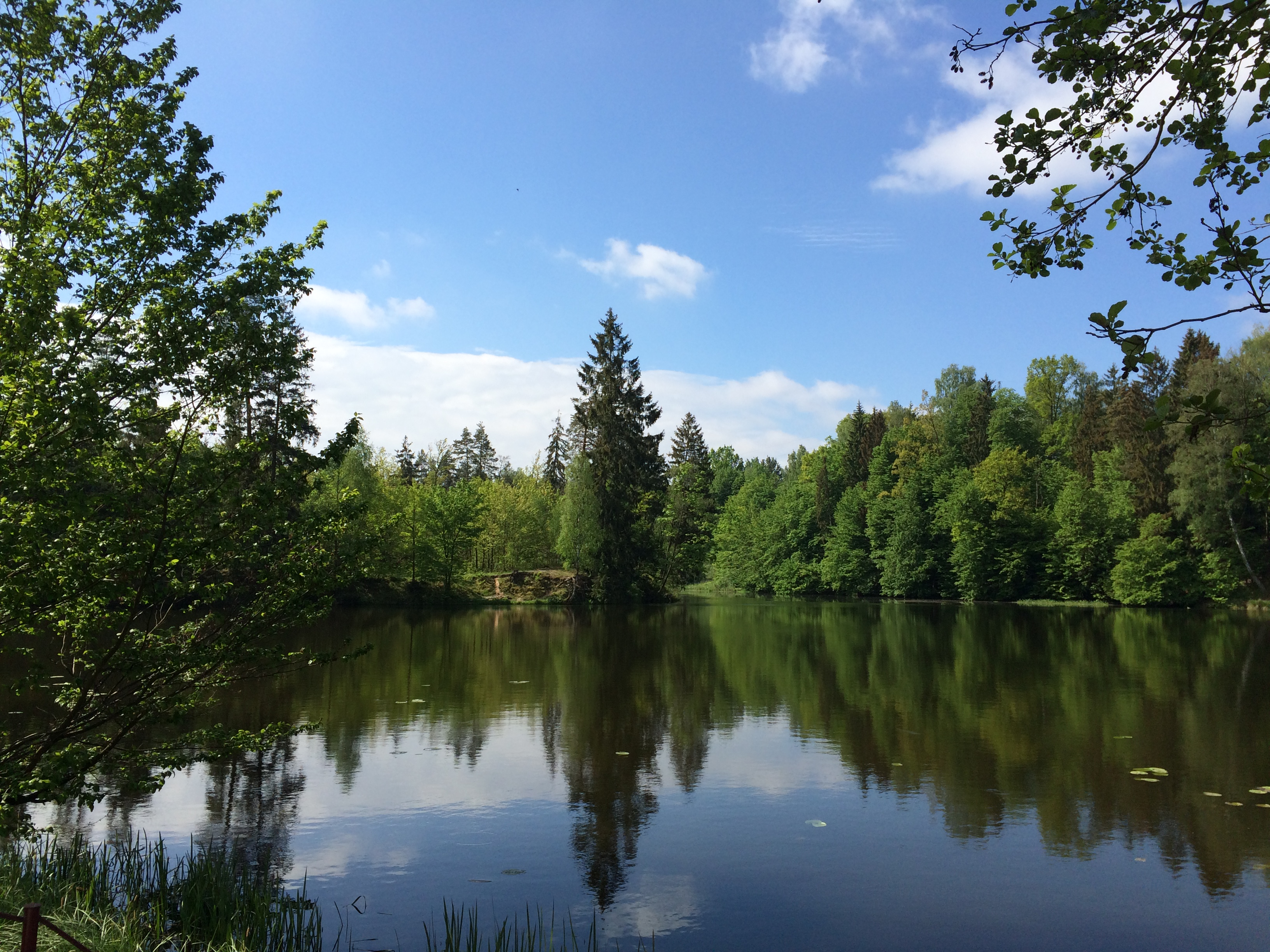 Łyna River 10km noth from Olsztyn